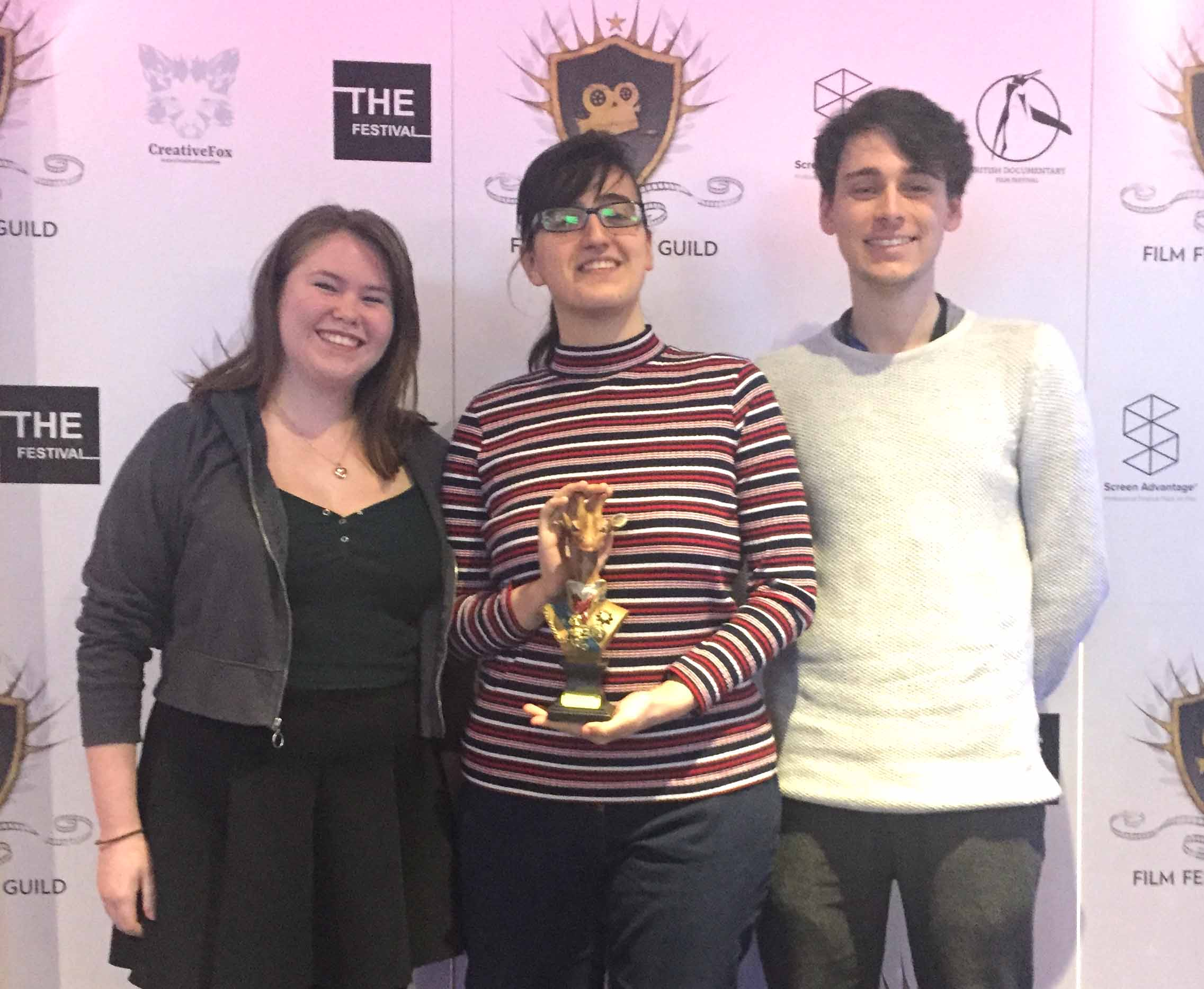 Best Student Animation Winners at the British Animation Film Festival 2019. From left: Maddison Gould, Maria Robertson, and Harry Pearson.